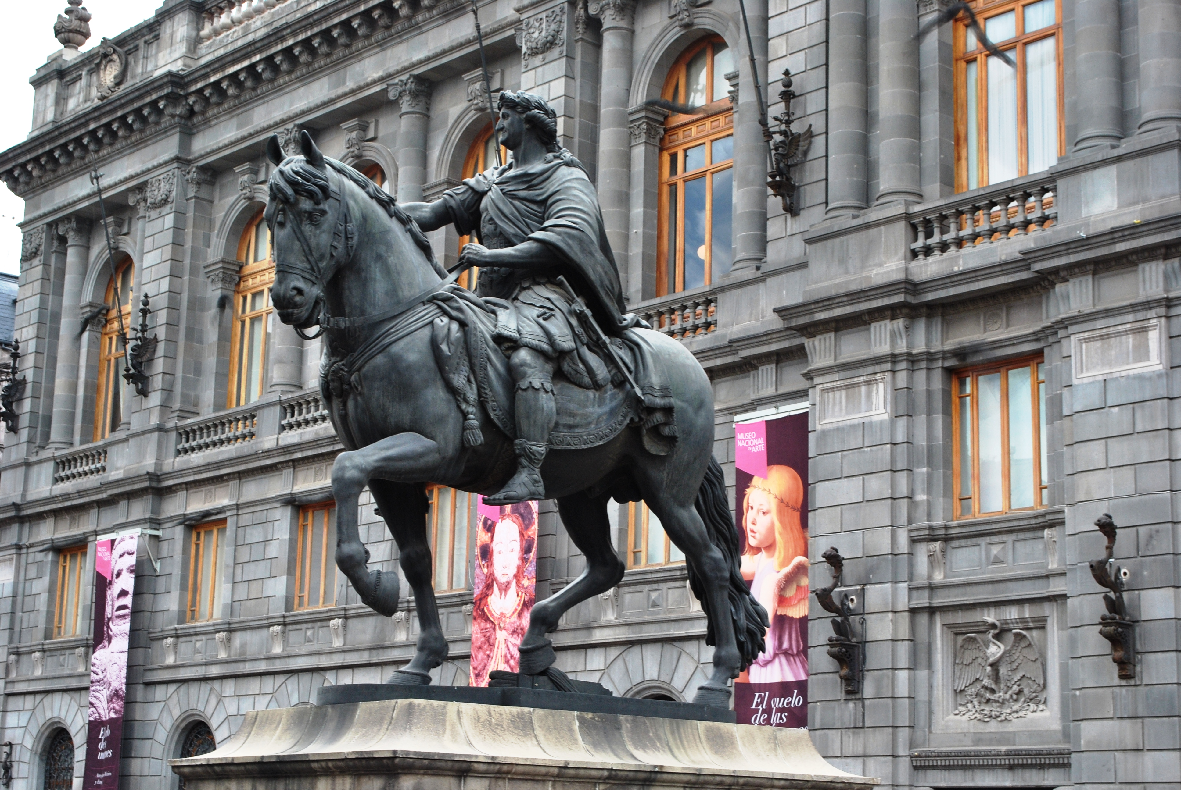 Manuel Tolsá's large equestrian statue of Charles IV of Spain, who was the monarch just before Mexico gained its independence.